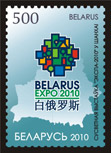 Stamp of Belarus